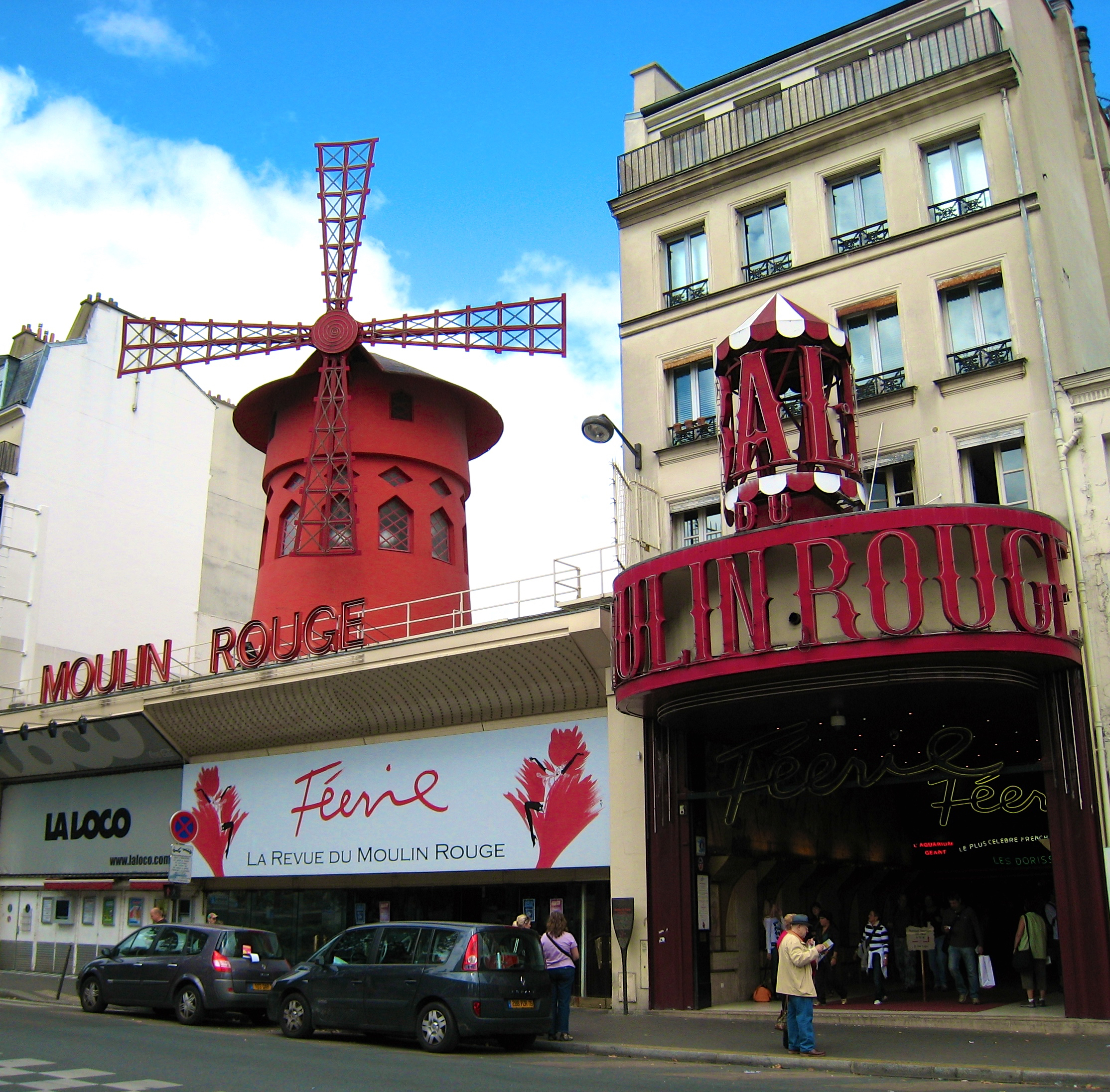 Moulin Rouge (daytime) in Paris, France